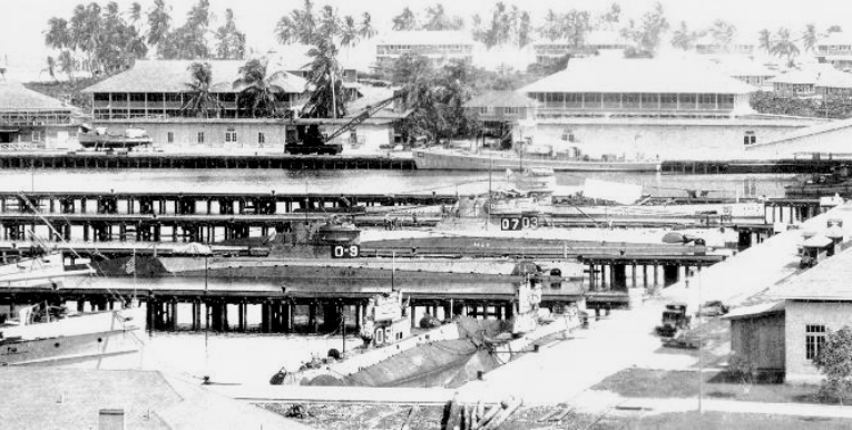 United States Navy O-class submarines at Naval Station Colo Solo, Panama Canal Zone, in 1923.